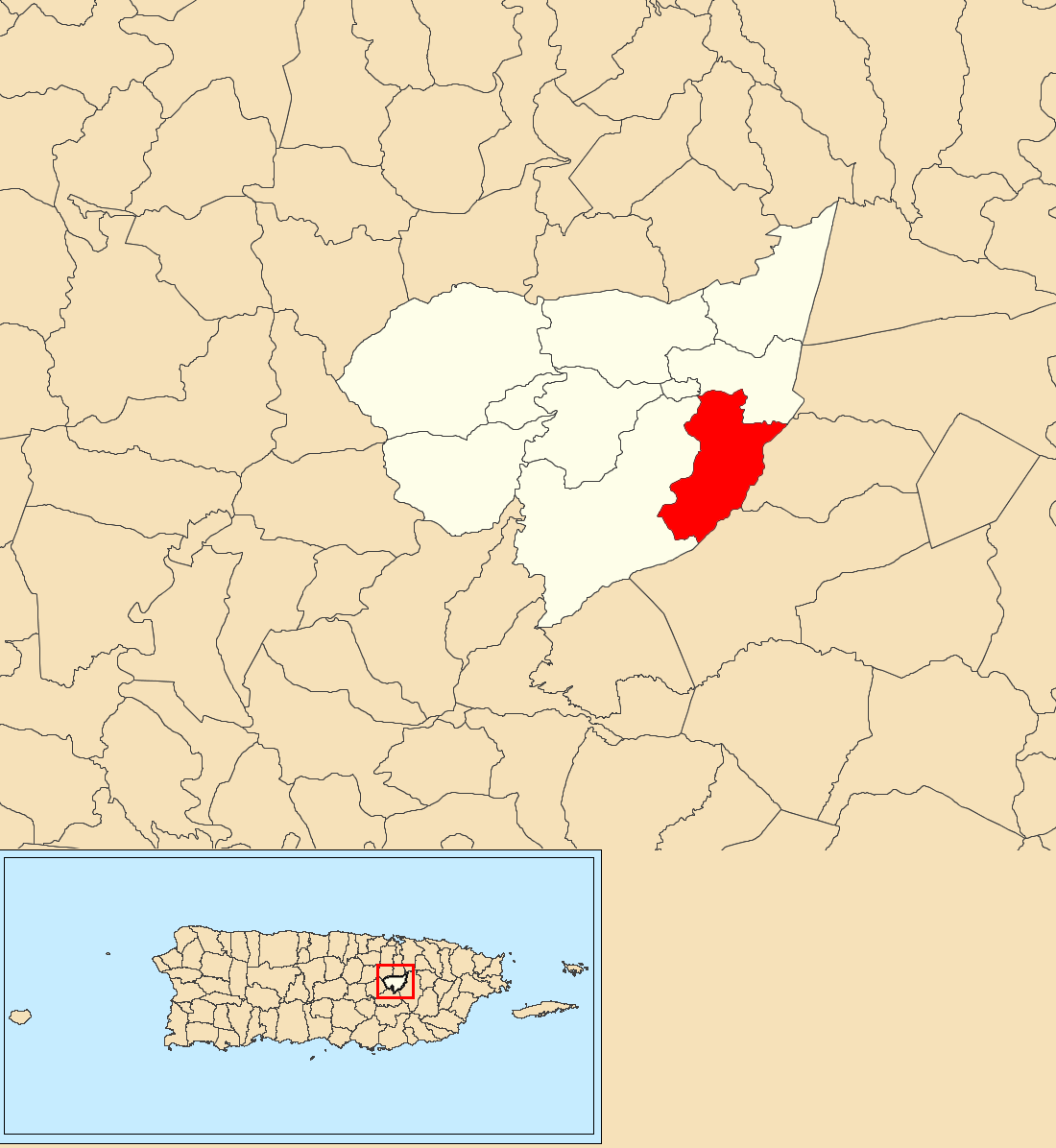 Cagüitas, Aguas Buenas, Puerto Rico locator map